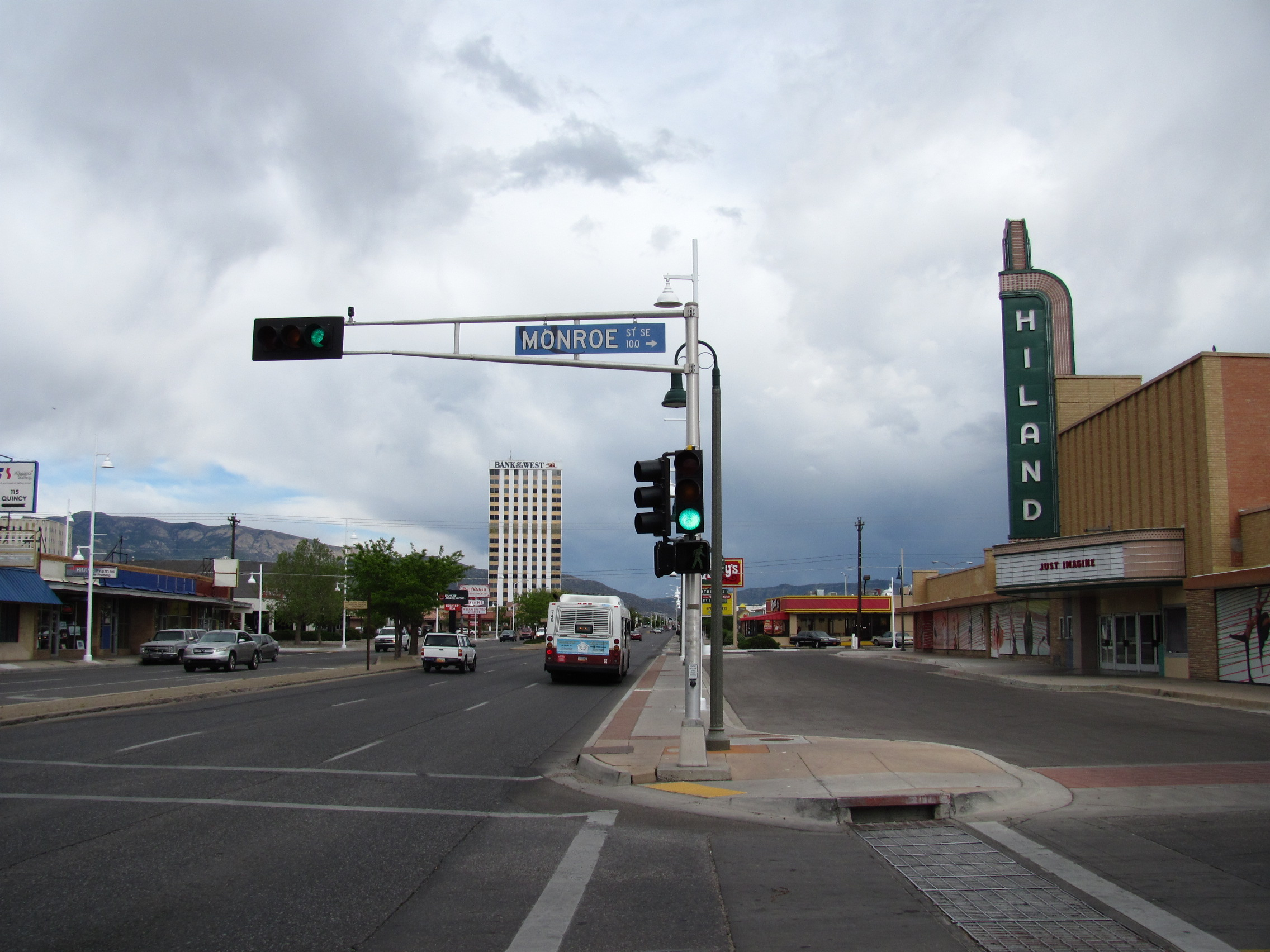 Central Avenue at the Hiland Theater, Albuquerque New Mexico, May 2010